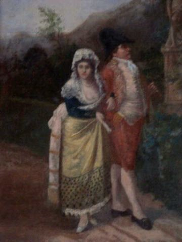 "Courting Couple' by the Belgian painter Théodore Reh (1845-1918) - private collection